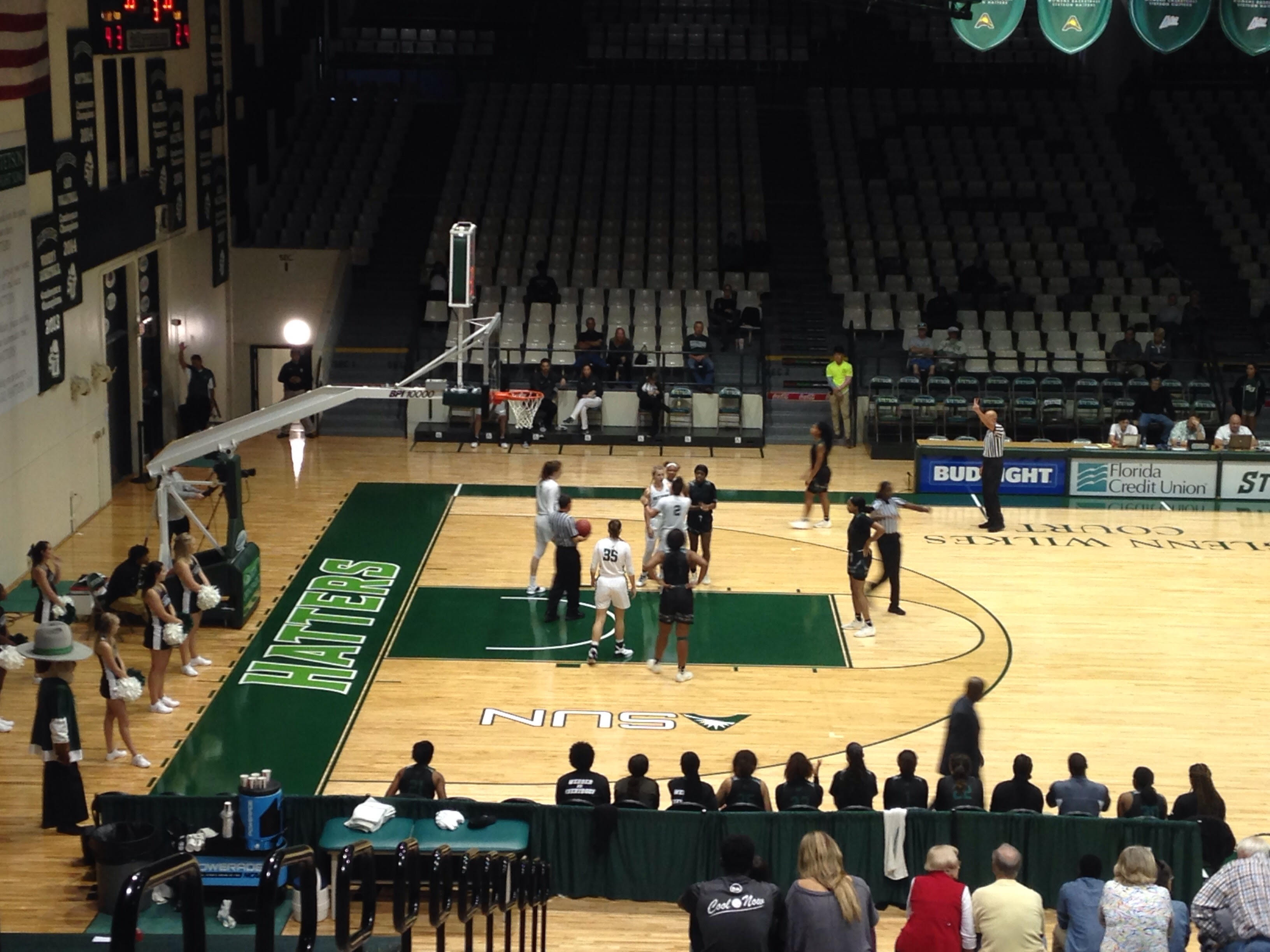 Stetson University (white) take on Webber International (black) during a women's basketball game on November 30, 2018.